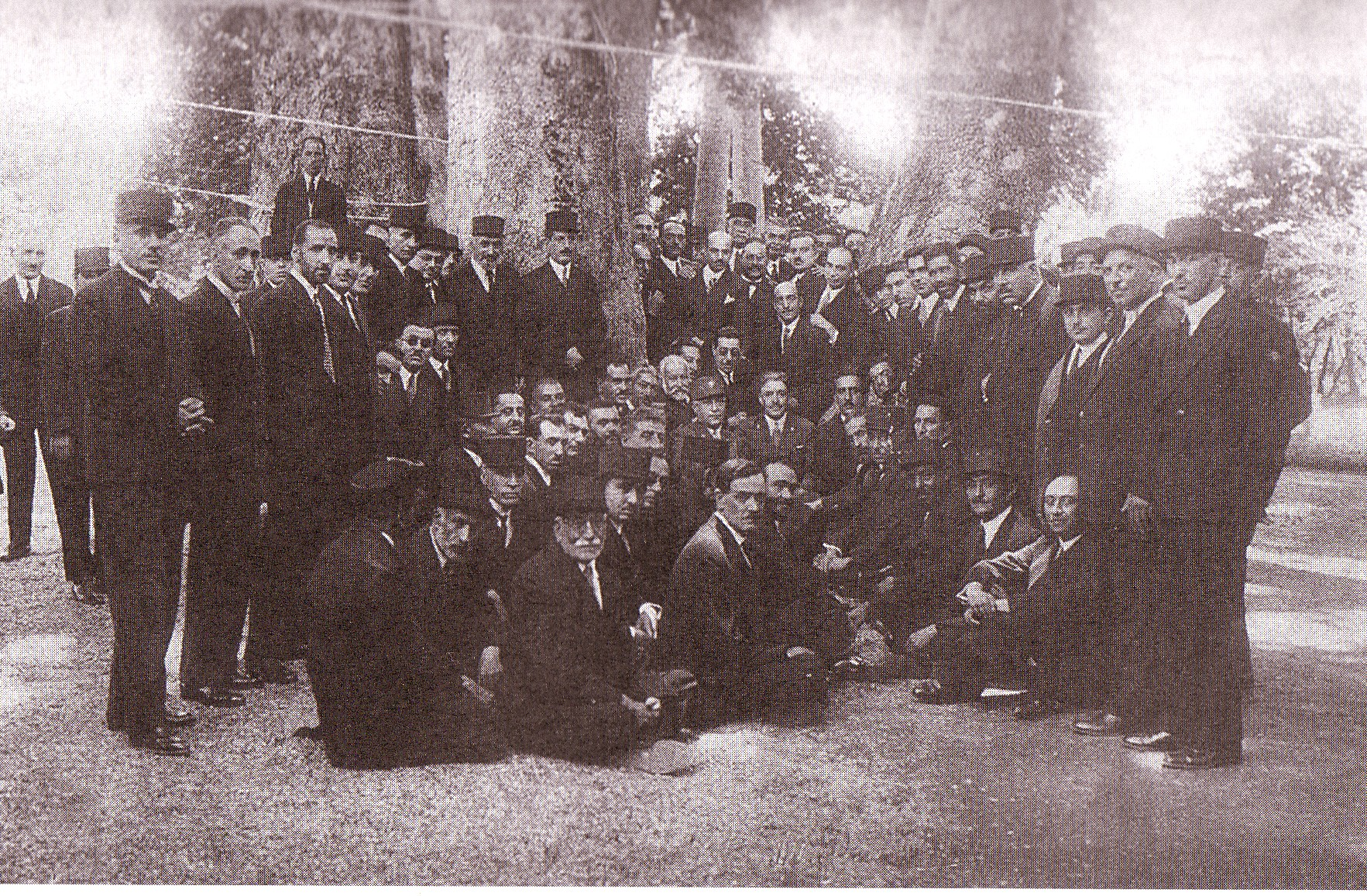 Teymourtash, myself, public domain